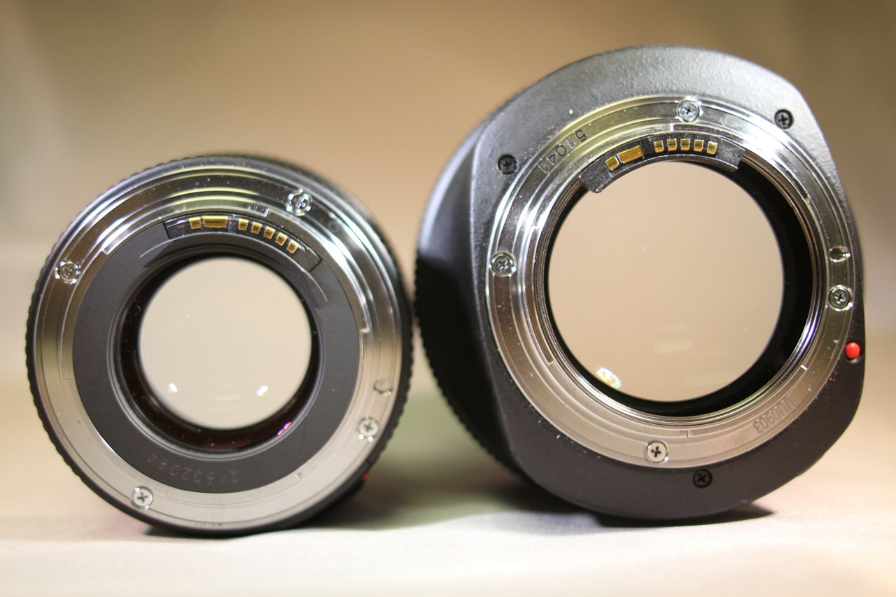 Canon 85mm f/1.2 L II and f/1.8 mounting comparison.